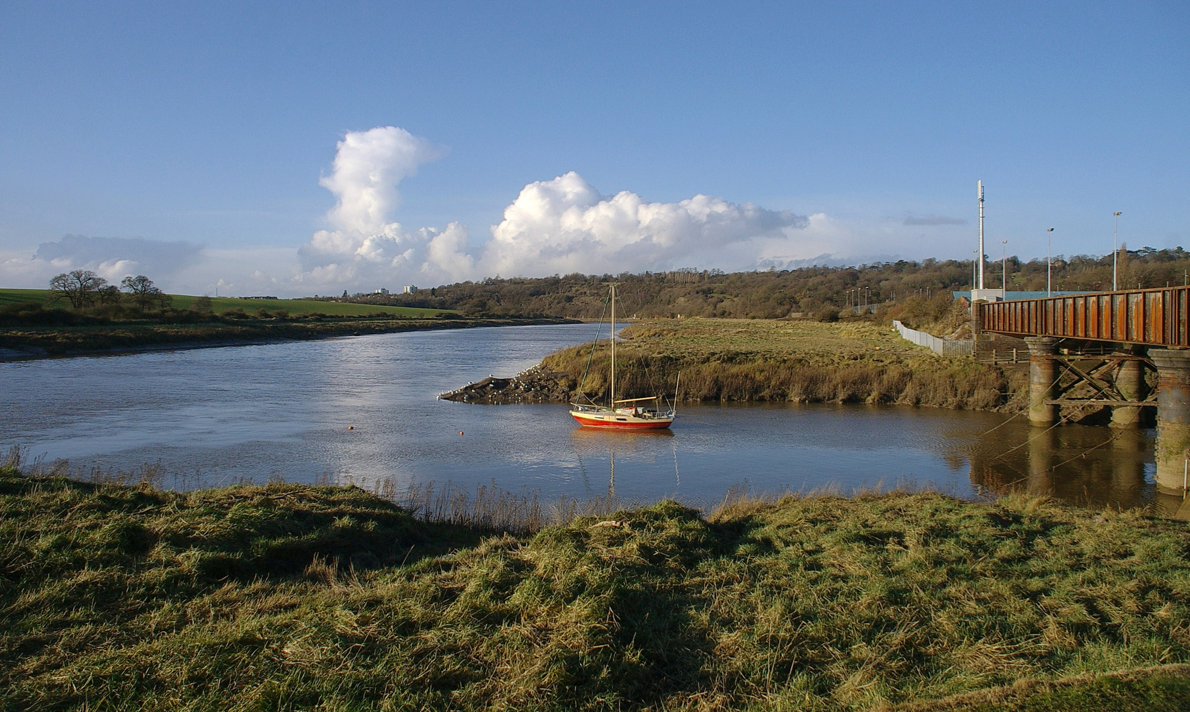 The River Avon meets the River Trym at Sea Mills.